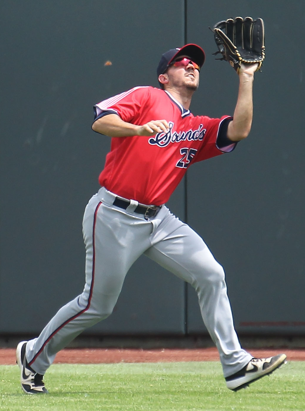 Minda Haas Kuhlmann | 2019 USAGE INSTRUCTIONS: You are welcome to share or publish to your own site or social media account, but you MUST credit me, Minda Haas Kuhlmann. Twitter: @minda33. Instagram: minda.haas